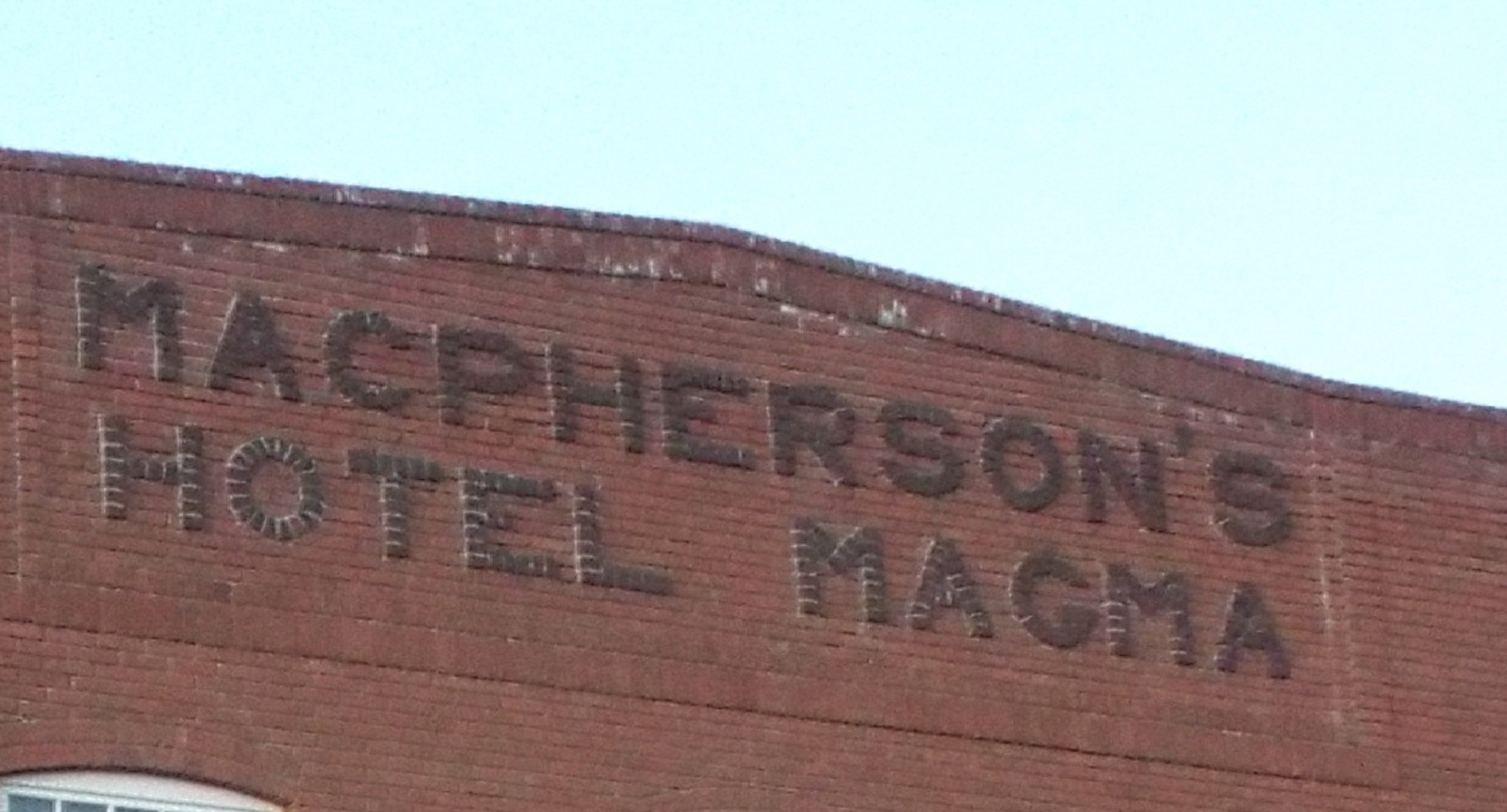 Superior-MacPerson’s Hotel Magma-100 Main Street-1923-2